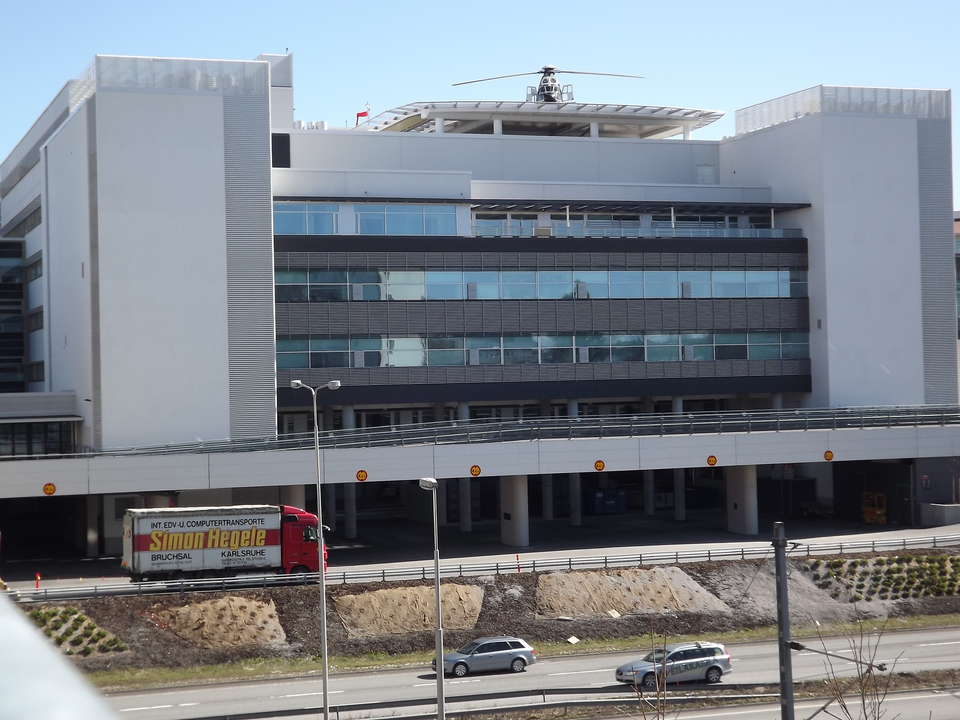 The T part of Turku University Hospital. OH-HVF of the Border guard (used also for SAR operations etc.) on the roof.